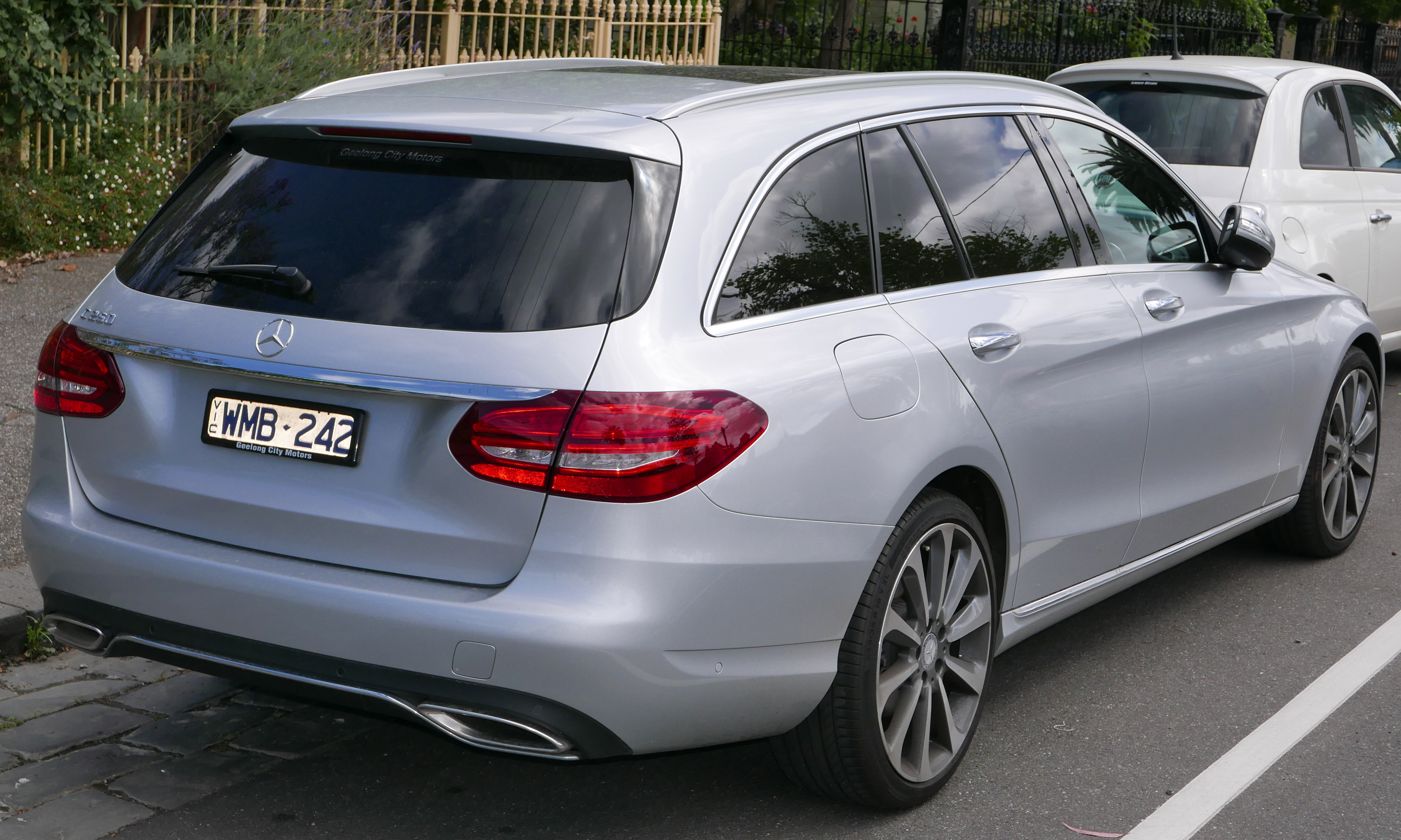 2014 Mercedes-Benz C 250 (S 205) station wagon. Despite the date discrepancy between the description and the vehicle registration information below, a check of the VIN reveals a "delivery date" of 26 November 2014. Photographed in Carlton North, Victoria, Australia. Vehicle registration enquiry results Jurisdiction Victoria Registration WMB242 Chassis code WDD2052452F137439 Engine code 27492030351766 Compliance date 2015-01 Year of manufacture 2015